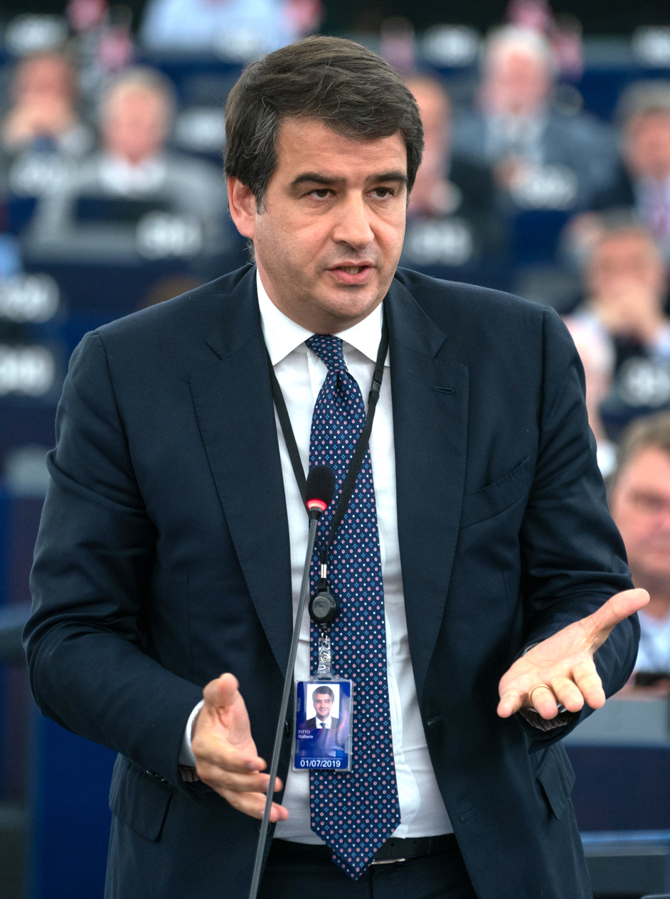 This photo is free to use under Creative Commons license CC-BY-4.0 and must be credited: "CC-BY-4.0: © European Union 2019 – Source: EP". No model release form if applicable. For bigger HR files please contact: webcom-flickr(AT)